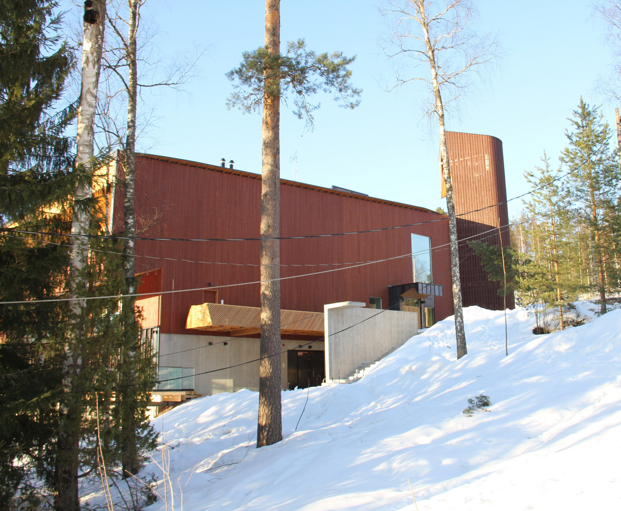 The Finnish Nature Centre Haltia -building, Nuuksio, Espoo, Finland. Completed 2013. Lahdelma & Mahlamäki Architects, architect Rainer Mahlamäki.